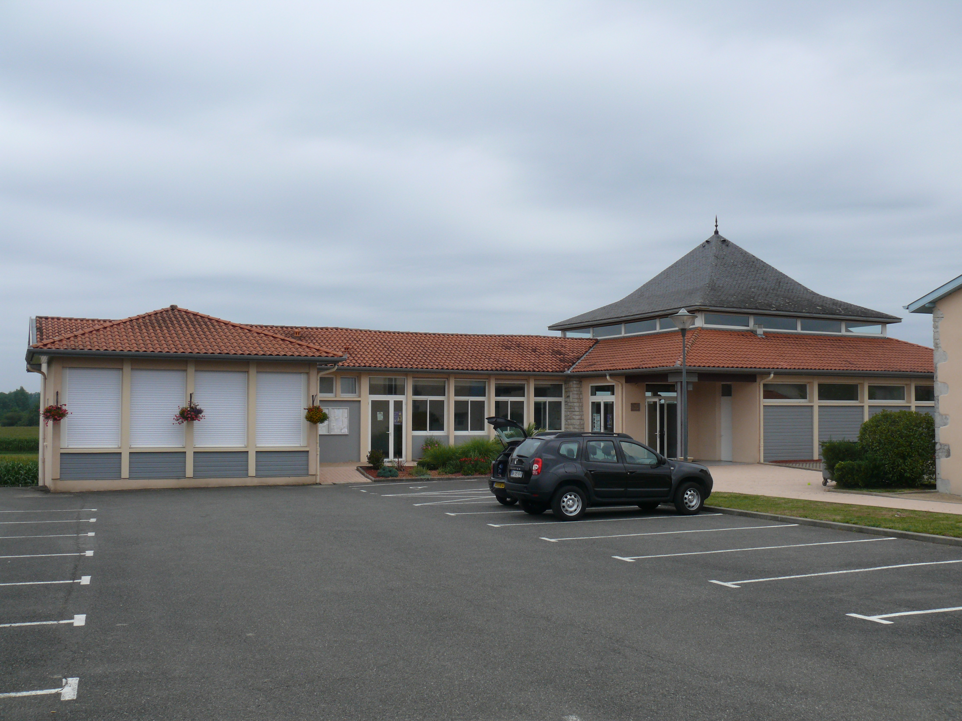 The town hall of Ozourt (Landes, Aquitaine, France).